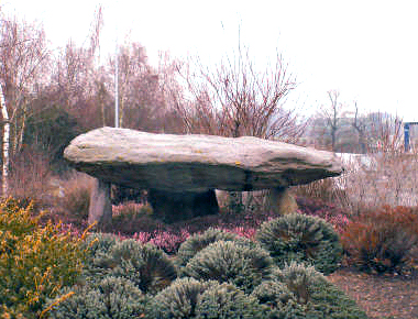 Menhir des Bouillons - Janzé (France)